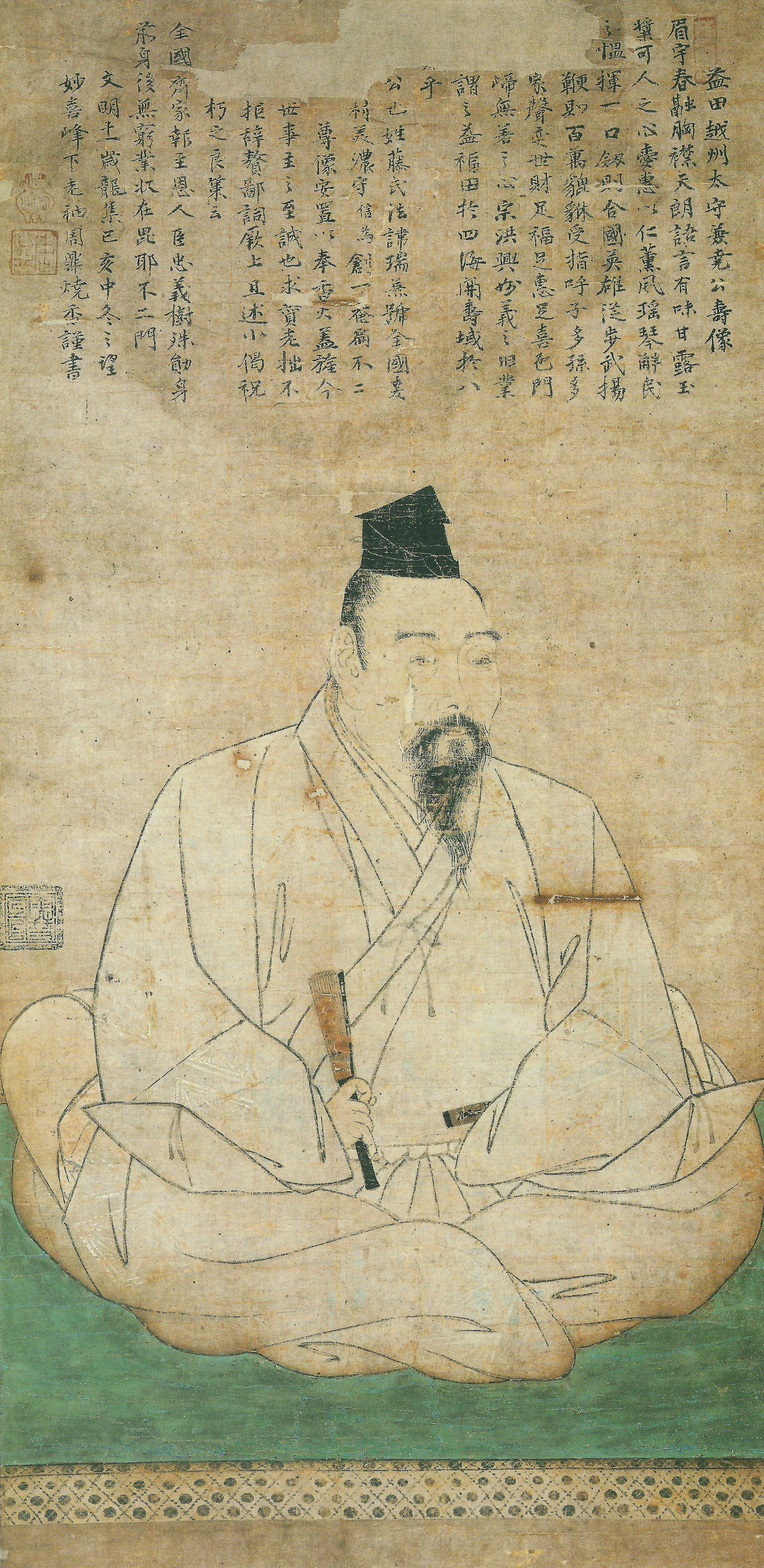 Masuda Kanetaka by Sesshu, Sesshu Memorial Museum, Masuda, Shimane, Japan